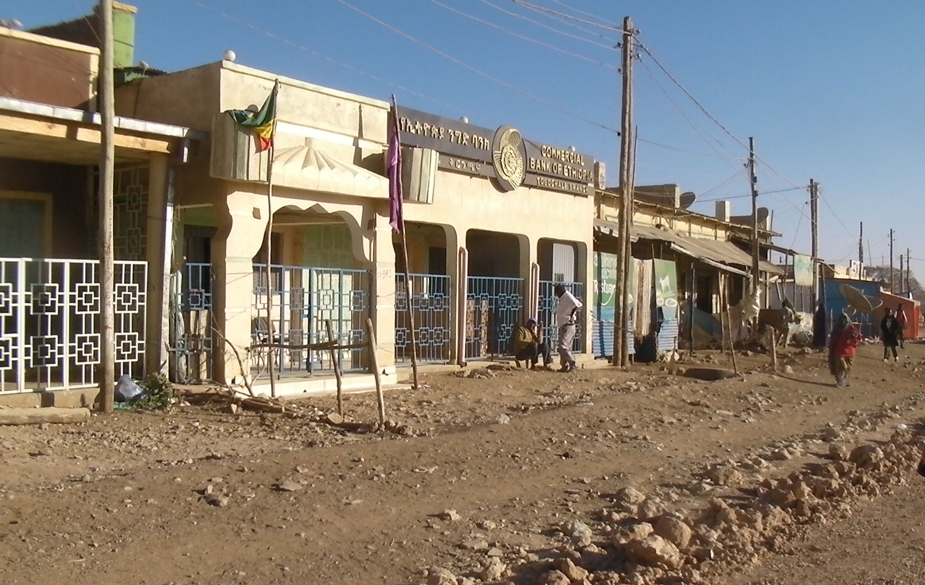 The Ethiopian side of Wajaale, the main crossing point between Ethiopia and Somaliland. In the centre is a branch of the Commercial Bank of Ethiopia. At the extreme left is the Ethiopian immigration building, and the letters "MAO" are written on it in white just to the left of this photo. The border is a few hundred meters further ahead on this road.